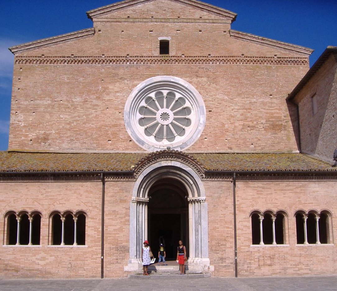 The Gothic era Chiaravalle Abbey, Fiastra (Abbazia di Chiaravalle di Fiastra) — a Cistercian abbey situated between Tolentino and Urbisaglia, in the Marche region, eastern central Italy. Built in the latter 12th-century, it is one of the better preserved Cistercian abbeys in Italy. The church building is pure Cistercian architecture, typical of the transitional phase between the Romanesque and the Gothic.